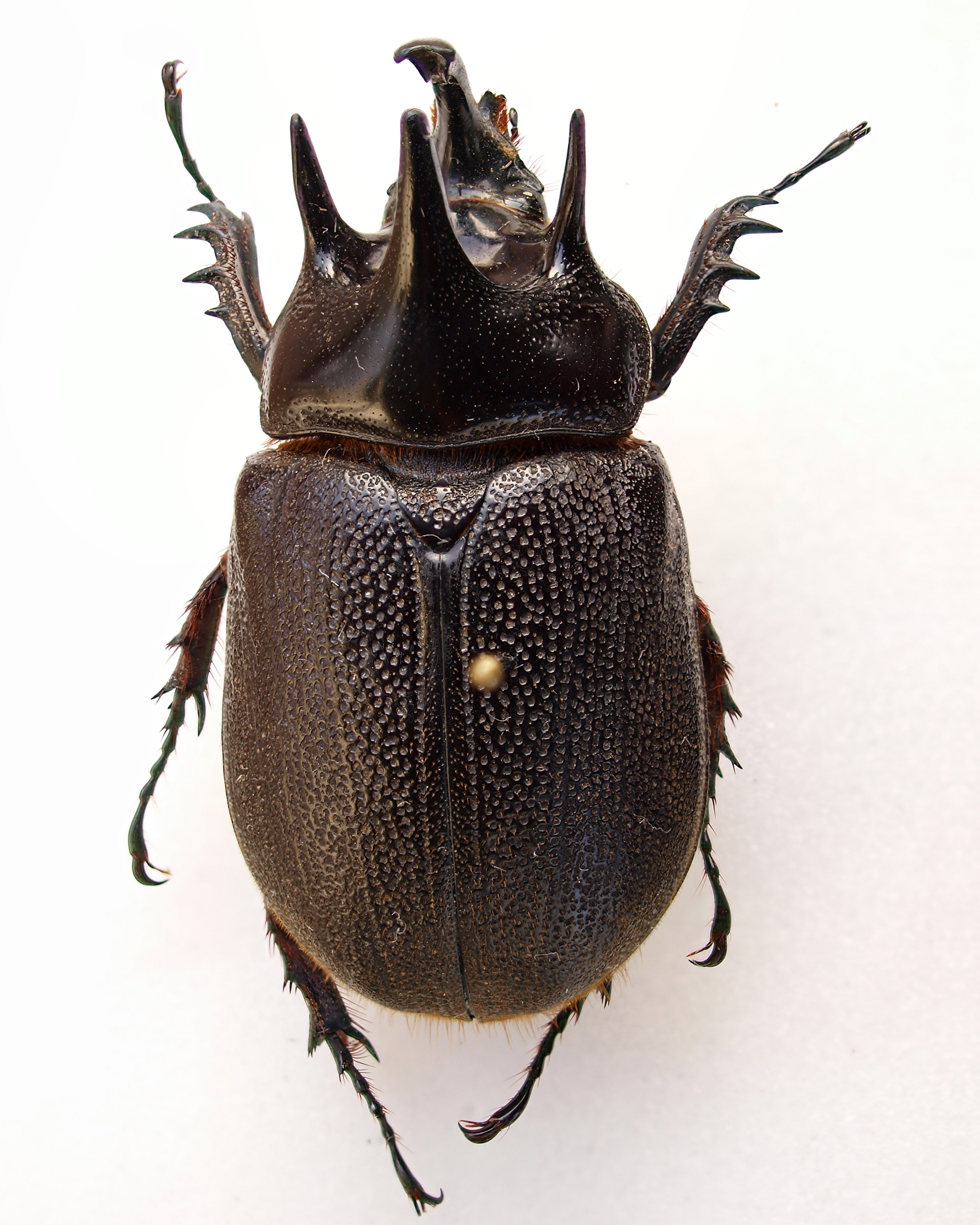 Heterogomphus mniszechi, male